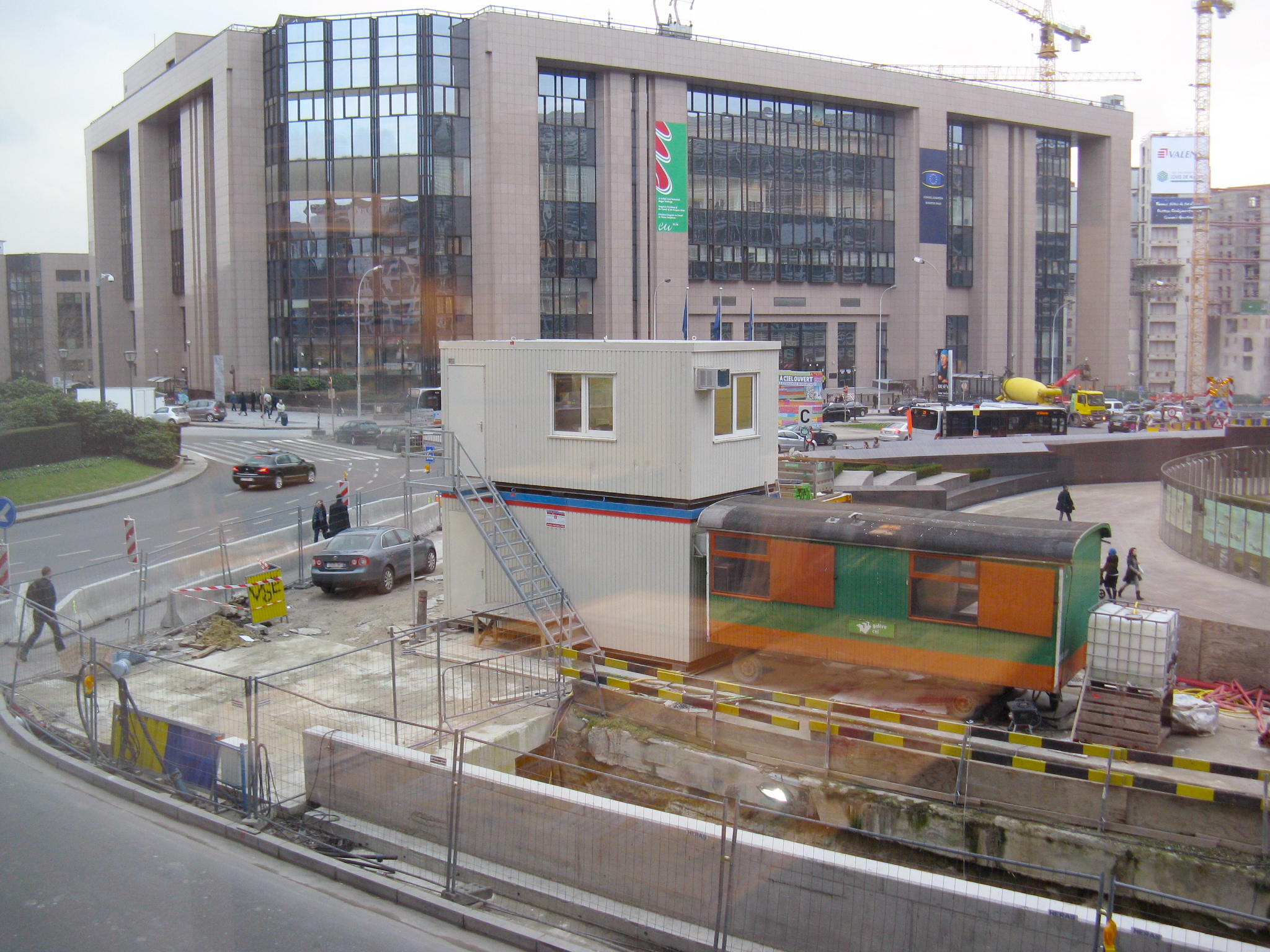 Picture of Schuman station/roundabout during the renovations. Not perhaps the most compelling photo, but it describes the renovations about half way through the project. Note the construction work on the Europa building, the new seat of the European Council and Council of the EU, in the background.